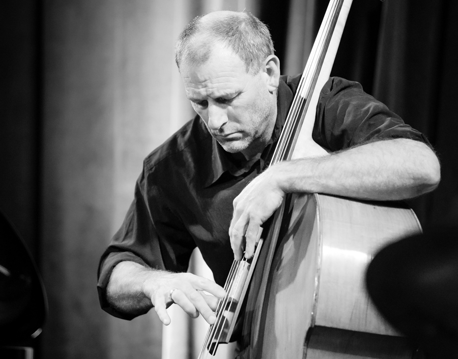 Johannes Eick in a concert with Elin Rosseland at Victoria Teater. The concert took place on 13. September 2019 in Oslo. Lineup:Elin Rosseland (vocal)Helge Lien (grand piano)Johannes Eick (double bass)Knut Aalefjær (drums and percussion)